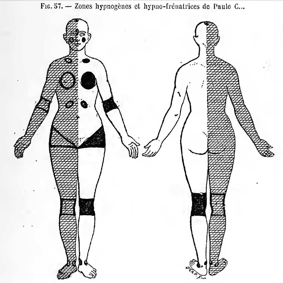 Pitres, A., Leçons Cliniques sur l'Hystérie et l'Hypnotisme: Faites à l'Hôpital Saint-André de Bordeaux: Tome 2 (Ouvrage précédé D'une Lettre-Préface de M. le Professeur J.-M. Charcot), Octave Doin (Paris), 1891. Diagram taken from p.499. The French neurologist Albert Pitres (1848–1928) claimed (p.98) that there were: (a) zones hypnogènes (‘hypnogenetic zones’), which induced hypnotism when stimulated — “regions… de provoquer instantanément le sommeil hypnotique” (‘zones that provoke hypnotic sleep instantaneously’); and (b) zones hypnofrénatrices (‘hypno-arresting zones’) — “le font cesser brusquement le sommeil hypnotique” (‘that abruptly terminate the hypnotic sleep’). Although the locations of the “zones” varied from person to person, they were distinct and constant for any given individual; viz., they had a “position habituelle” (p.497). According to Pitres, the “zones” are bi-lateral. This diagram, drawn by Pitres, of his patient, “Paule C—“, on 13 October 1884, shows the ‘hypnogenetic zones’ for the right-hand side of his body, and the ‘hypno-arresting zones’ for the left-hand side of his body.